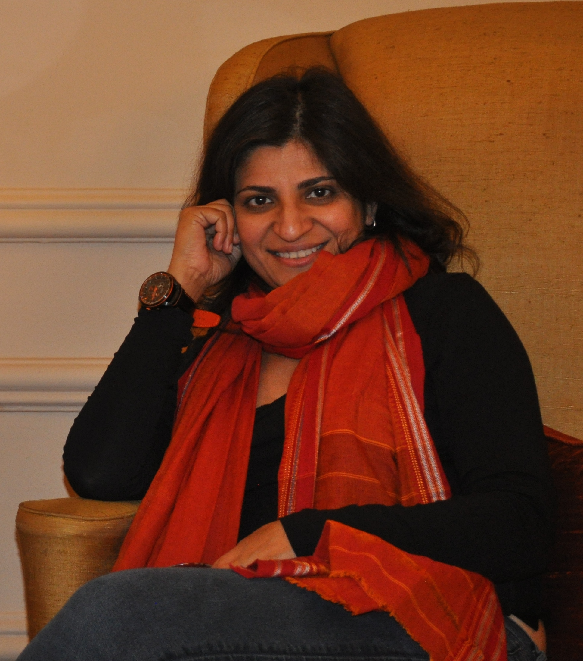 In Calcutta, India